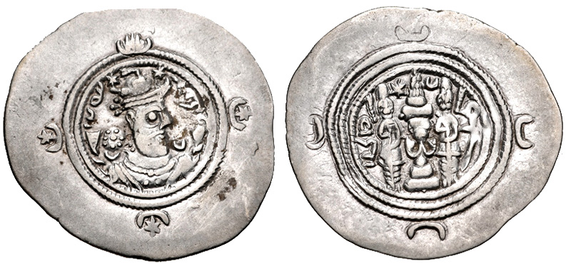 Coin of Khosrow II from Meshan, 591 mint.